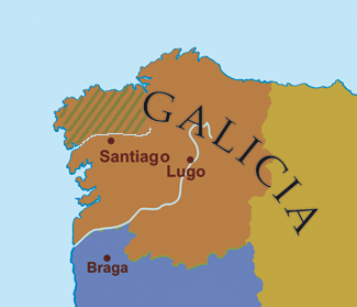 Territory ruled by Pedro Fróilaz de Traba. Rodrigo held castles both in the region of Trastámara (the land beyond the Tambre river, hatched) in the archdiocese of Santiago, and also along the souther border of Galicia with Portugal (purple).